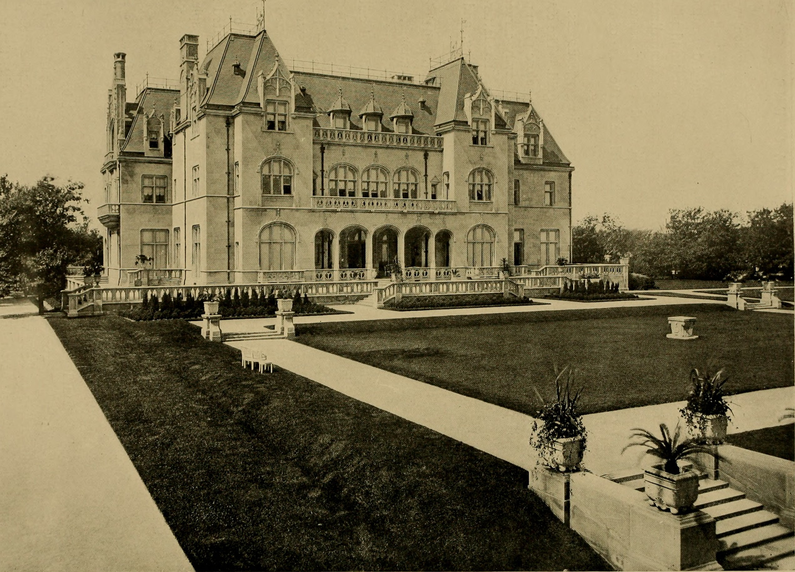 Title: American estates and gardens Year: 1904 (1900s) Authors: Ferree, Barr, 1862-1924 Subjects: Architecture, Domestic -- United States Gardens Publisher: New York, Munn and Company Text Appearing Before Image: d segments of the ceil-ing. Special mention should be made of the loggias and porches, which are treated as out-door rooms. Their ceilings are vaulted, either in whole or in part, and are quite splendid intheir decorative embellishments. Ochre Court, the House of Mrs. Ogden Goelet. Ochre Court, like The Breakers, was a late work of the same architect, the lateRichard M. Hunt. No two buildings could, however, be more different in style. The archi-tectural motifs of Ochre Court are derived from the simple models of the French chateauepoch, when the Gothic feeling had not wholly disappeared nor the later Renaissance taken onthe full splendor of its subsequent enrichment. It is three stor^es in height, the uppermoststory being formed by the sloping roof, whose dormer windows, partly plain and partly orna-mental, form a leading feature in the architectural enrichment of the exterior. A small stoneporch is prefixed to the main entrance, above which is a large muUioned window, and above (69) Text Appearing After Image: hzoPi ■zw Q O W o wKH Qi O O u w u o